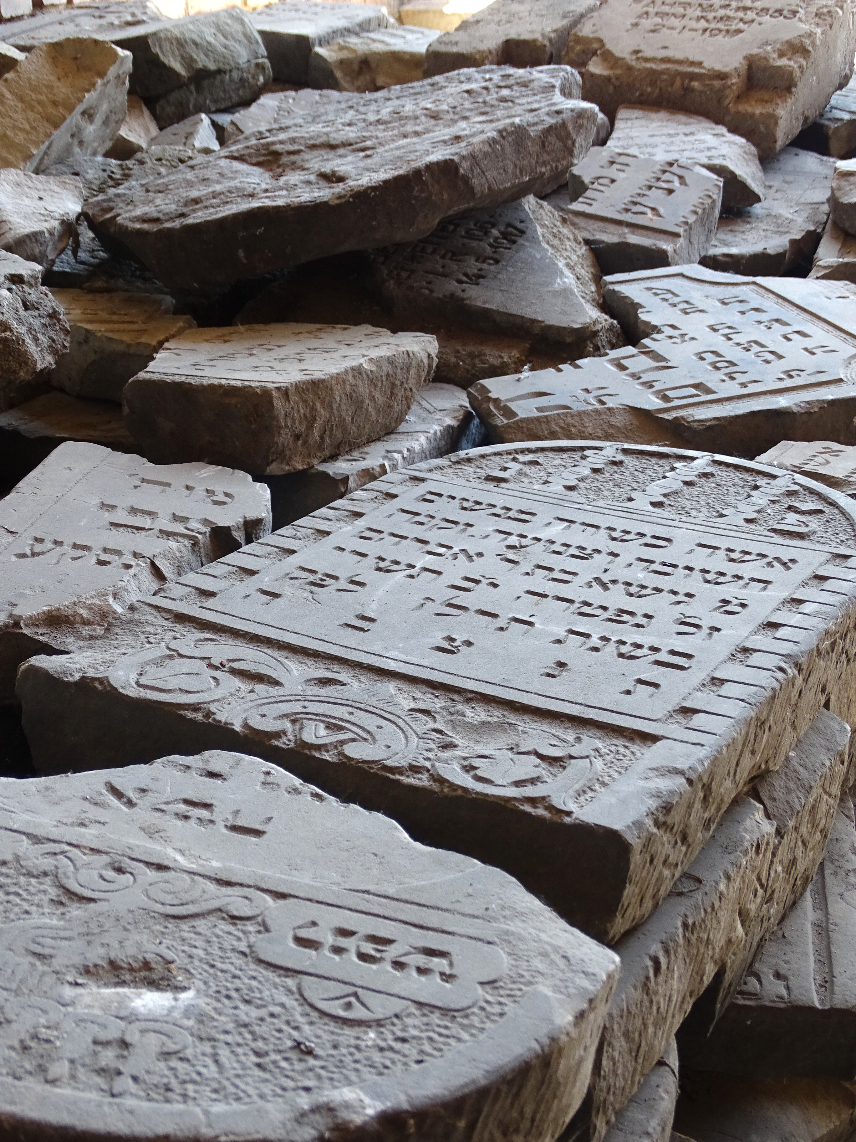 Jewish Tombstones Piled in Casemate - Brest Fortress - Brest - Belarus - 04